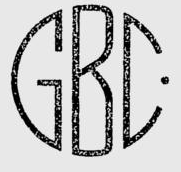 Historical logo of the Greif Bros. company.